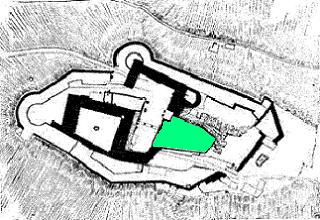 The small Plan shows the Castle Plassenburg in its situation in the City of Kulmbach in the year 1929. Published in the "News of the Freunde der Plassenburg" in 1930.